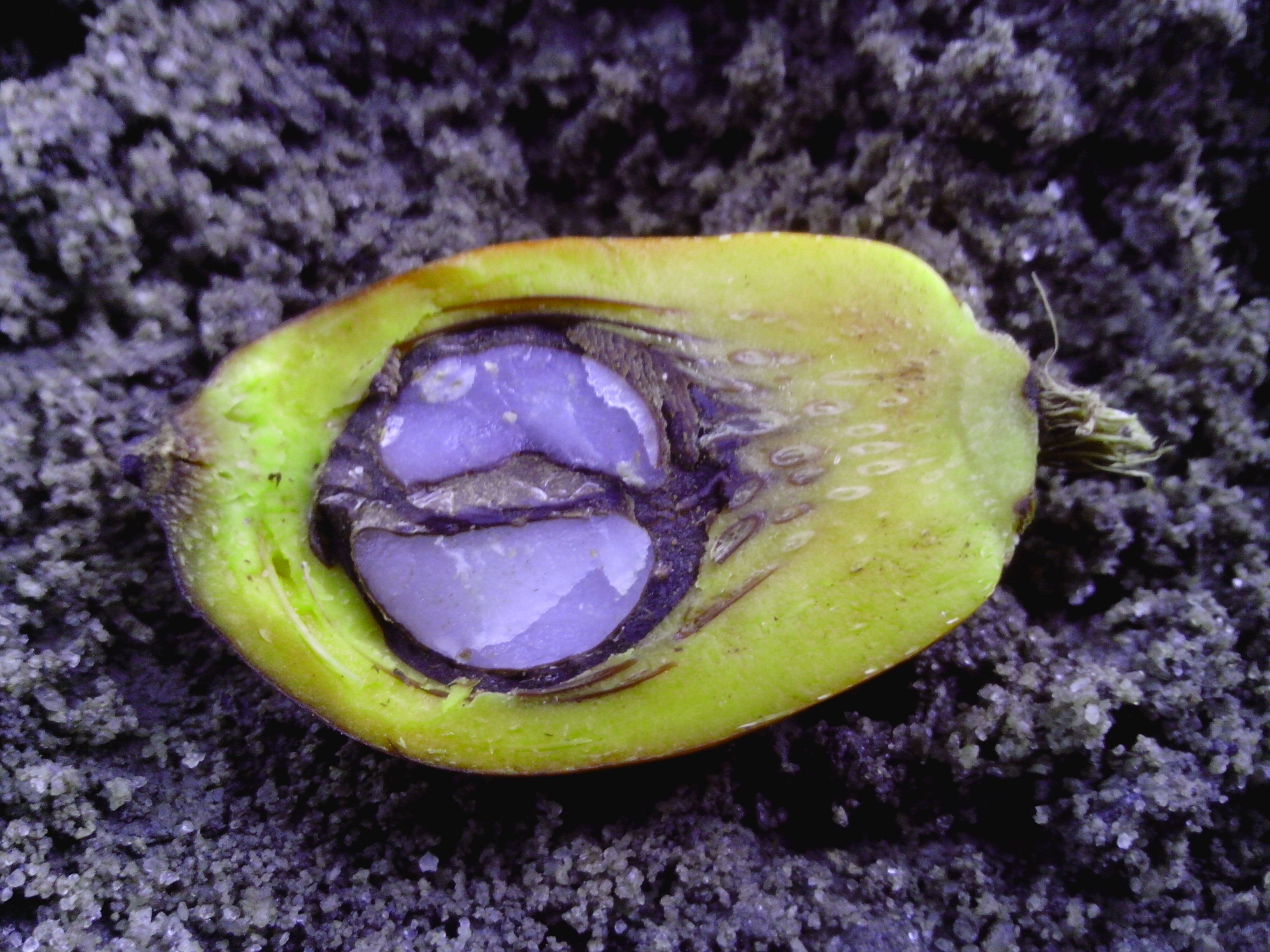 Palm oil fruit, mesokarp and kernel.